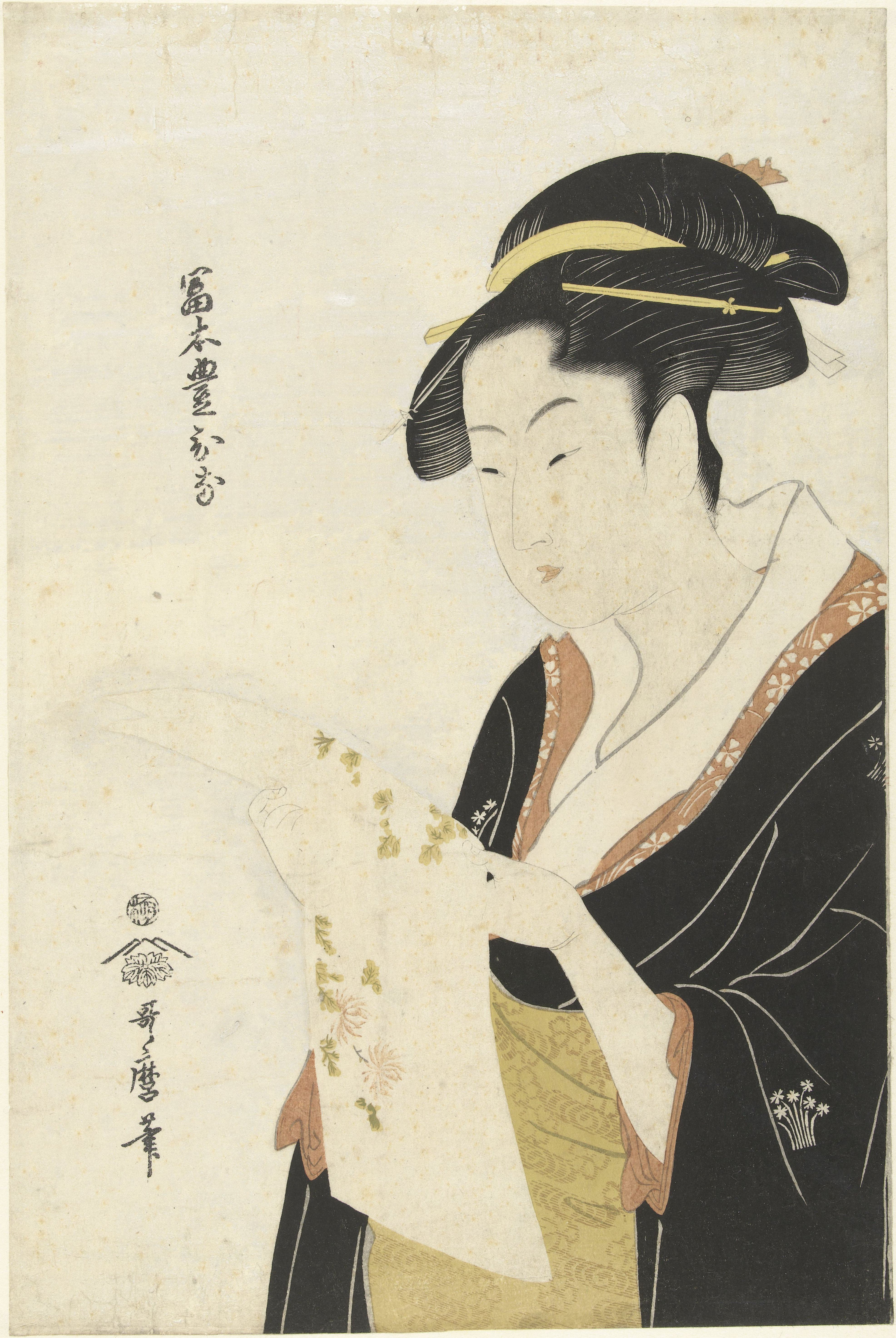 Ukiyo-e woodblock print of the geisha Tomimoto Toyohina reading a letter, by Kitagawa Utamaro